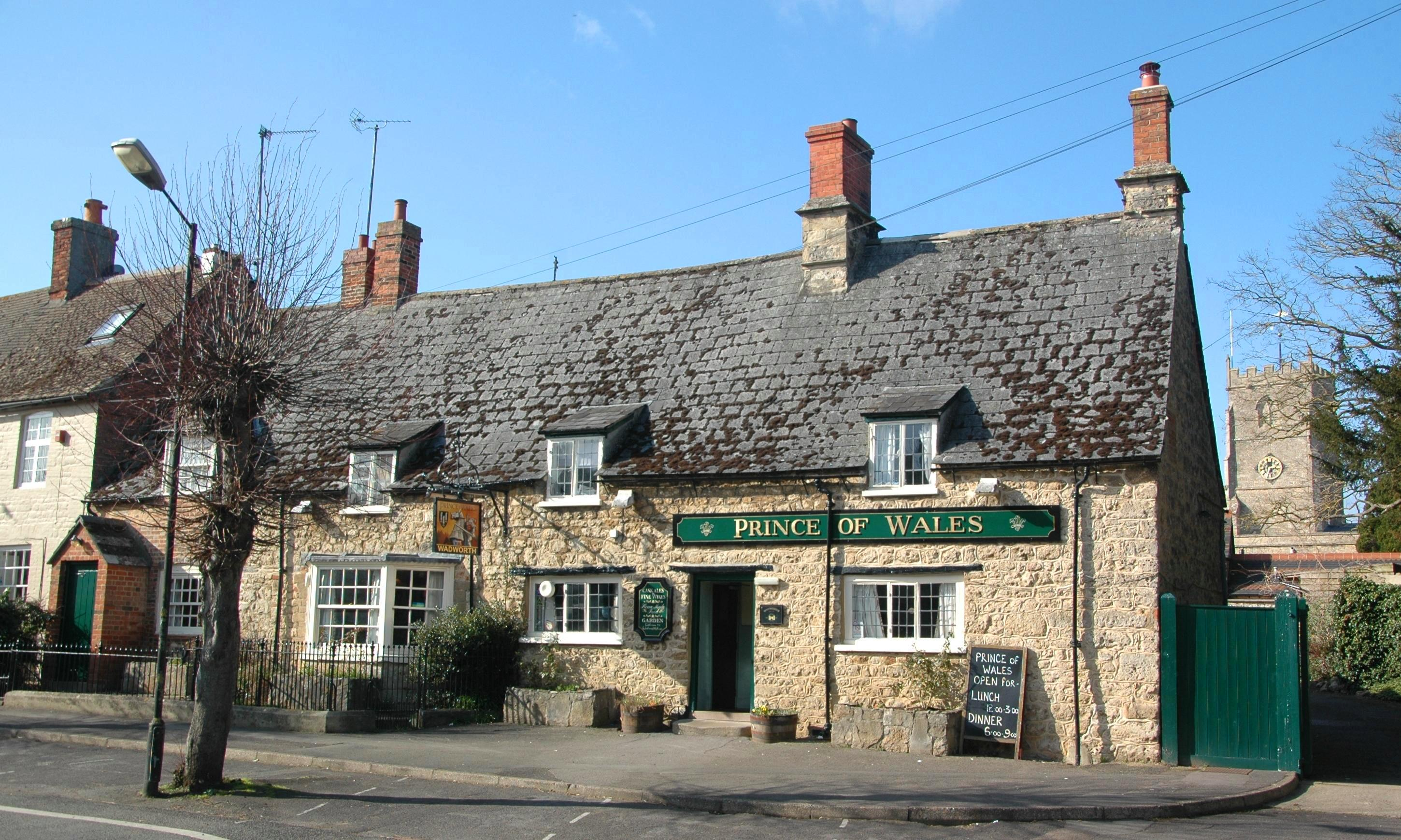 Prince of Wales public house, Shrivenham, Oxfordshire (formerly Berkshire). To the right is the 15th-century tower of St Andrew's parish church.